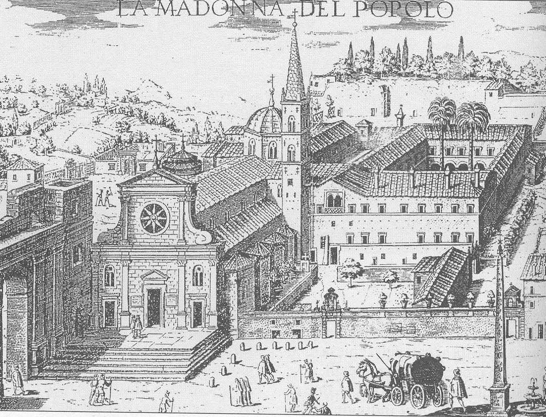 Print of the church of Santa Maria del Popolo in the year 1625